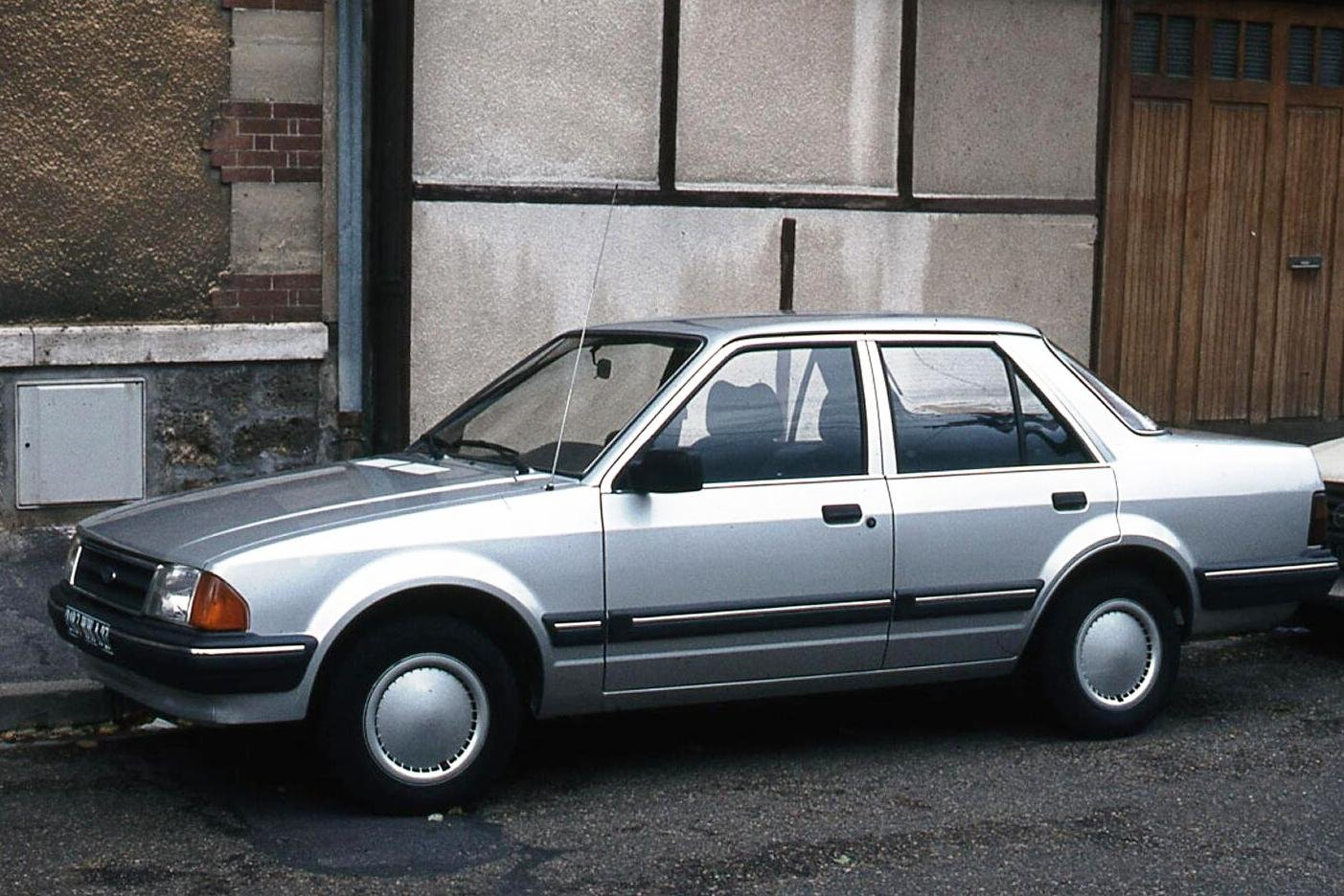 Ford Orion in and from France